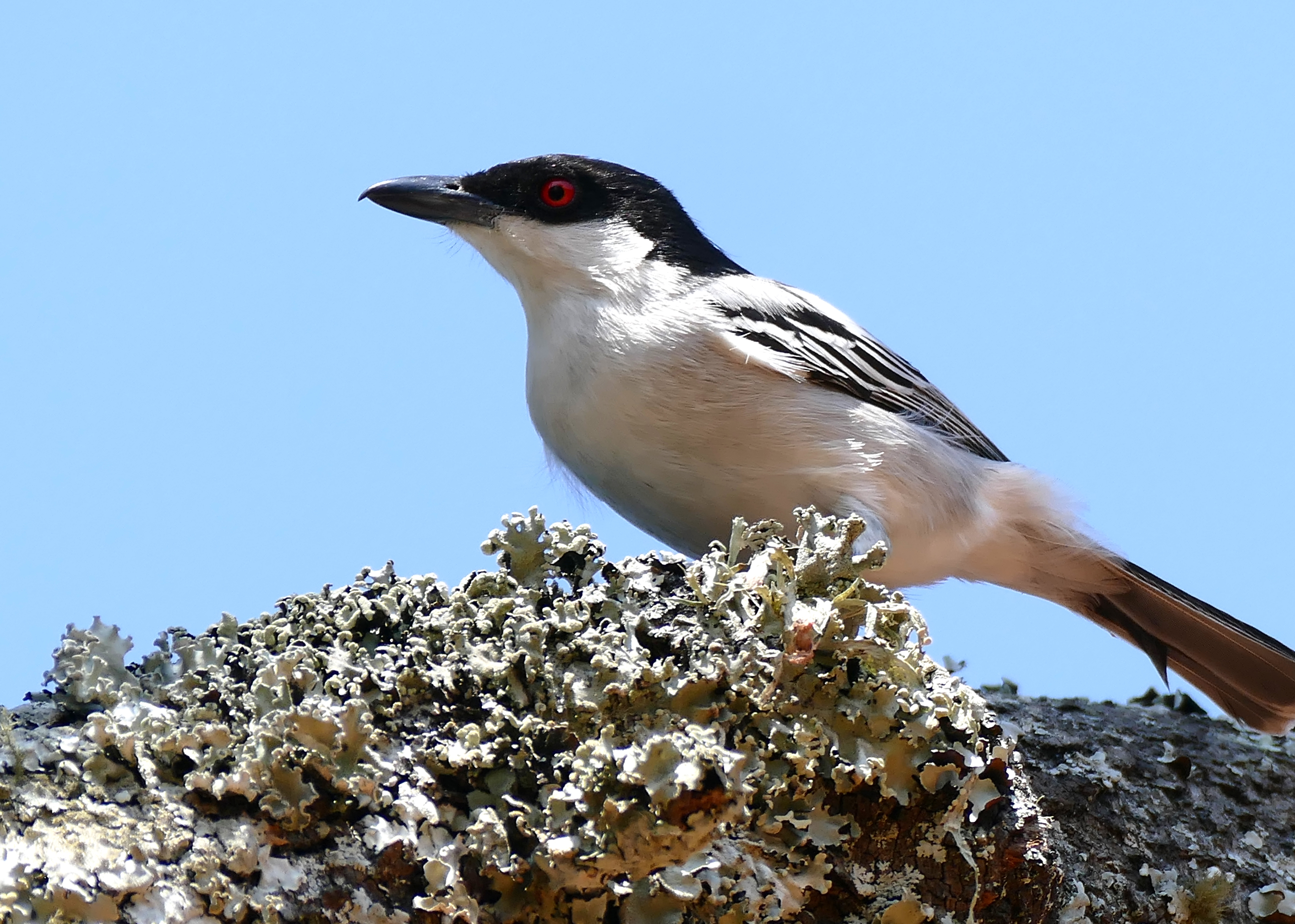 A male Black-backed puffback at Ntshondwe Camp, Ithala Game Reserve, Kwazulu-Natal, SOUTH AFRICA